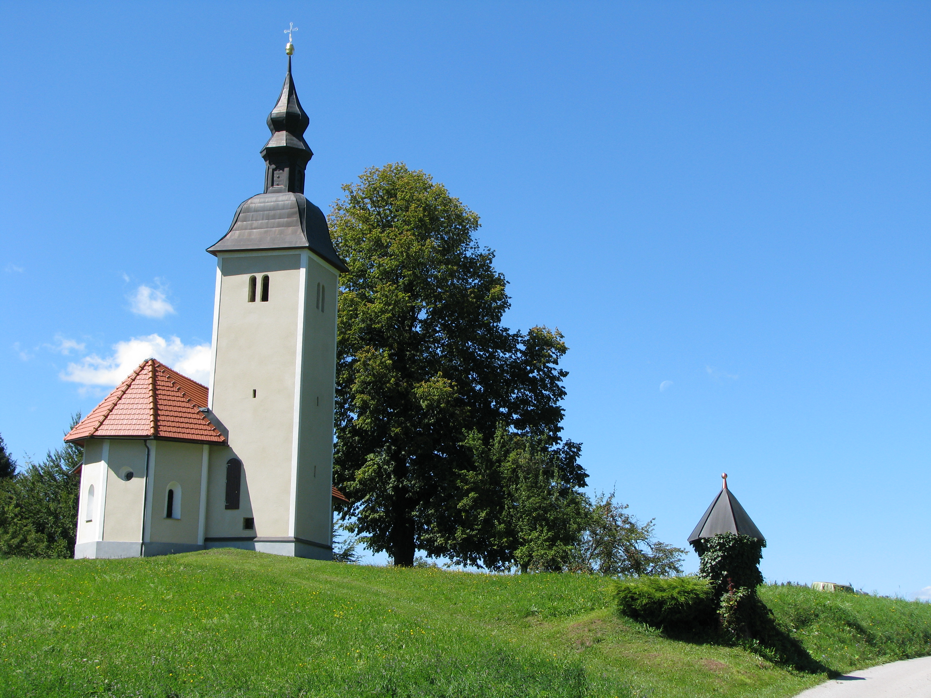 Church of the Holy Spirit in the hamlet of Zavšenik, village of Senožeti, Slovenia